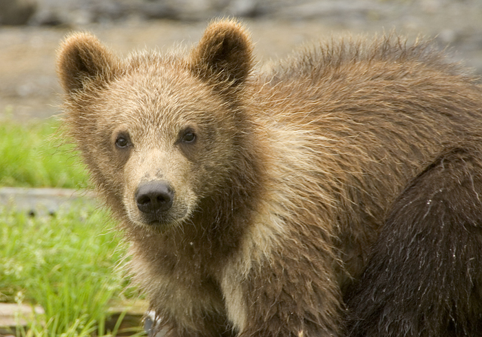 Close up of a grizzly bear cub at the Kodiak National Wildlife Refuge.